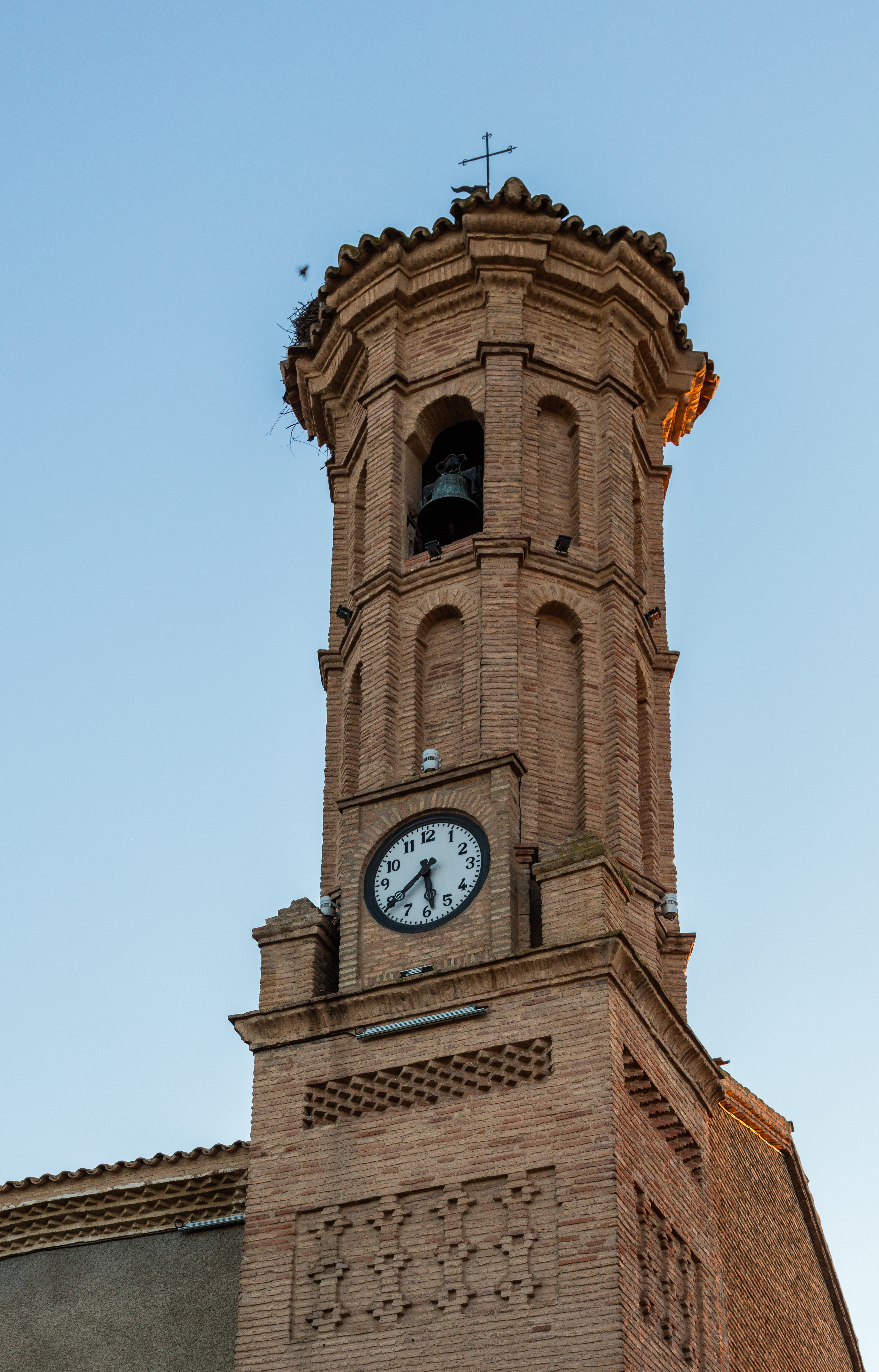 Church of de St Peter Martyr of Verona, Pinseque, Saragossa, Spain